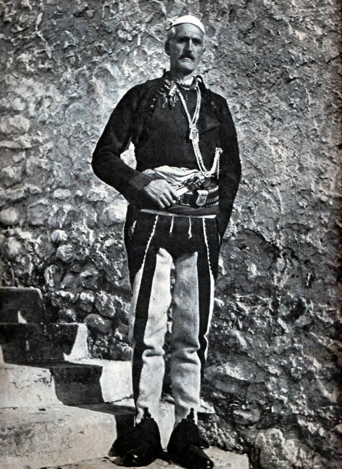 Prek Cali, chief of Kelmendi